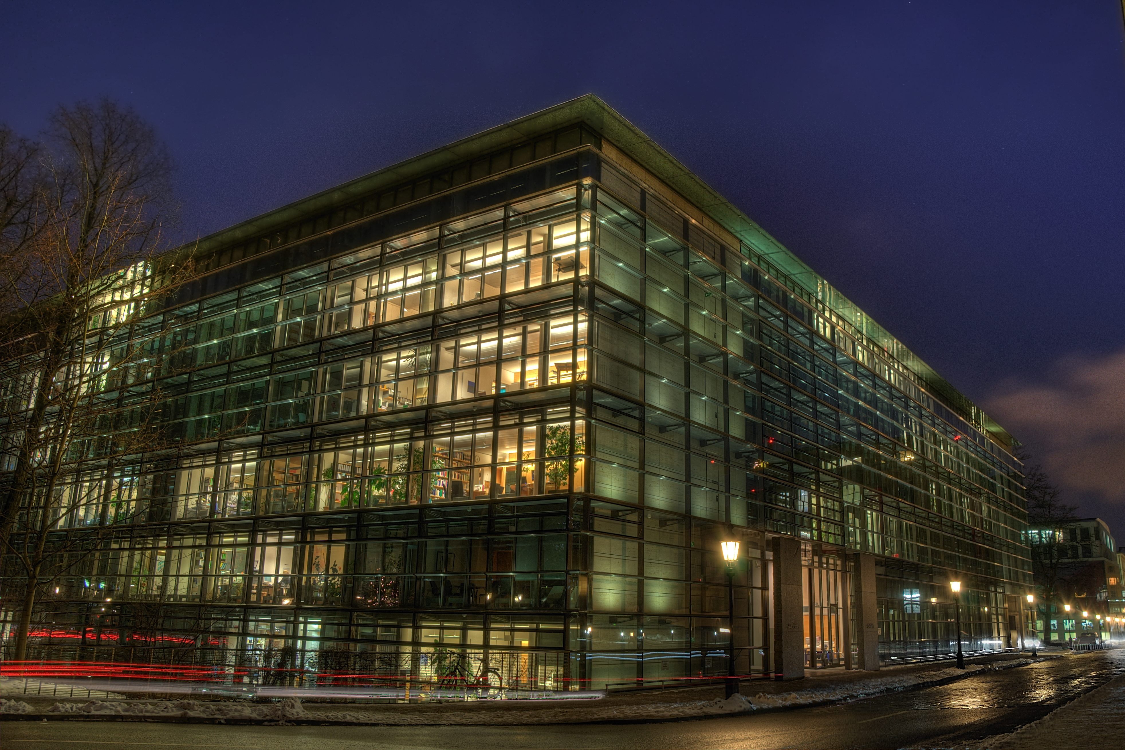 Photo of the Max Planck Institute for Intellectial Property and Competition Law, Munich